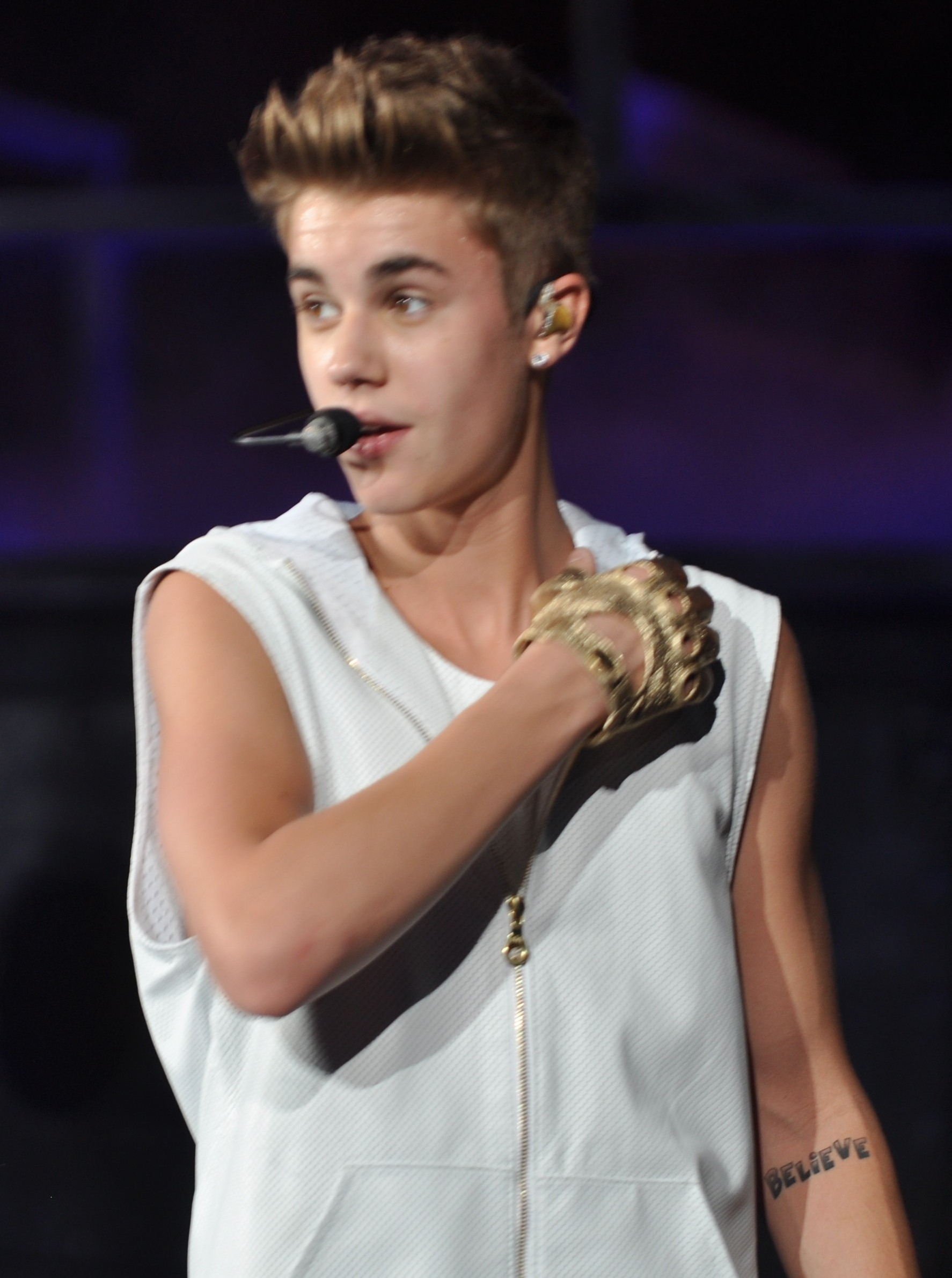 Justin Bieber performing Believe Tour in October 20, 2012.